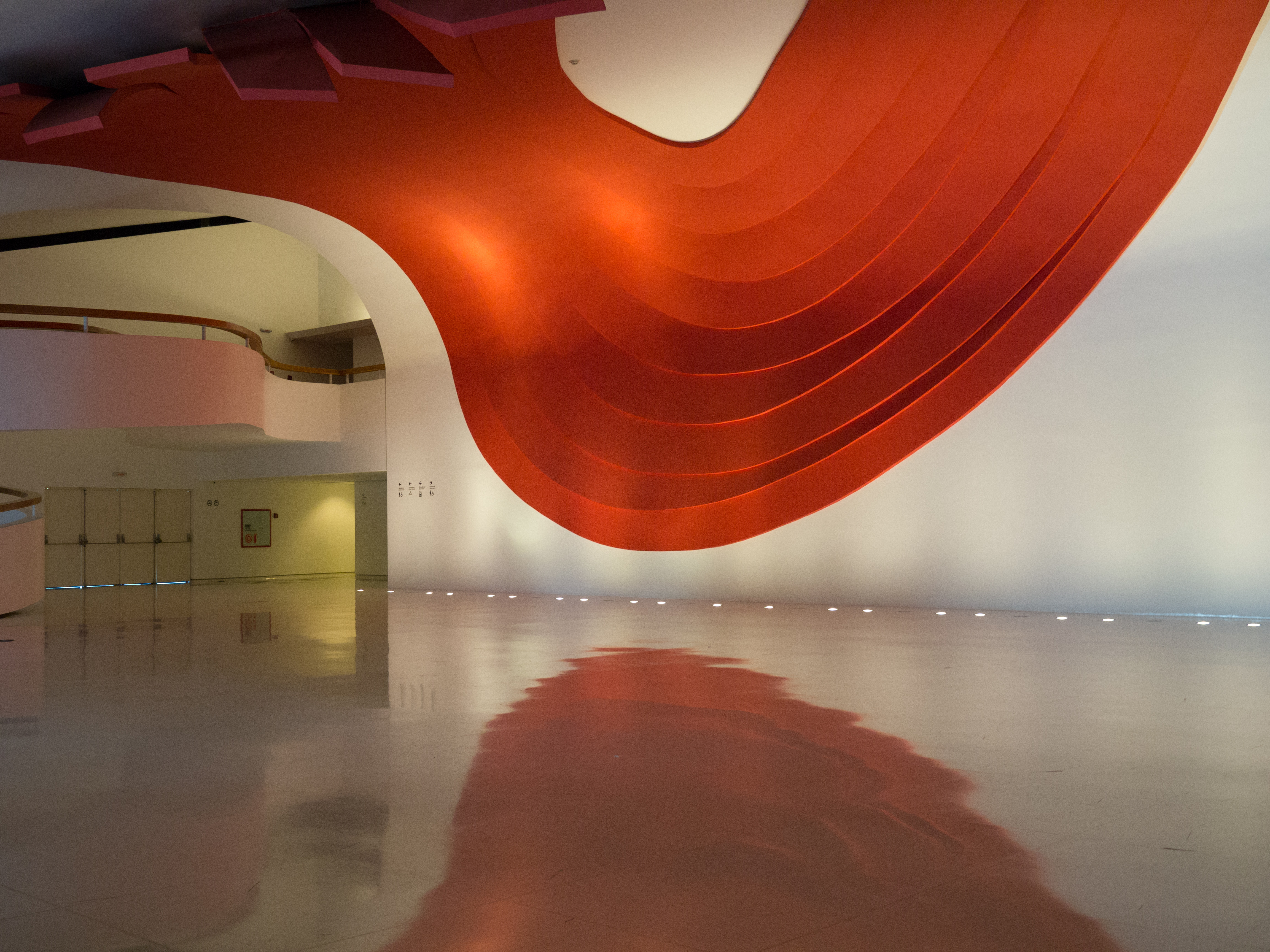 Interior of the Ibirapuera Auditorium in São Paulo